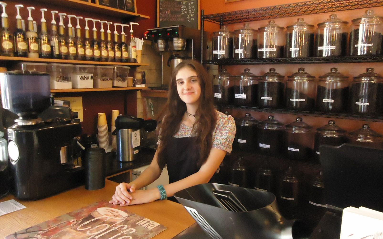 Coffee shops use warm colors such as browns and oranges in counter displays. In photo, a cashier at Ahrre's Coffee Roastery in Summit, New Jersey.